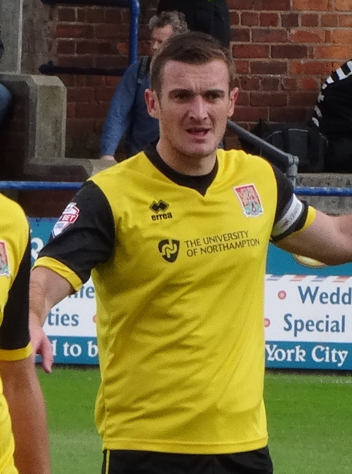 Lee Collins playing for Northampton Town against York City at Bootham Crescent, York on 16 August 2014